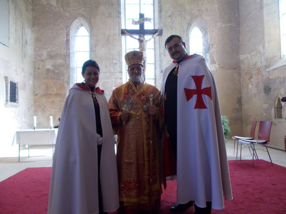 OMCTH Chapter in Wettin 2015